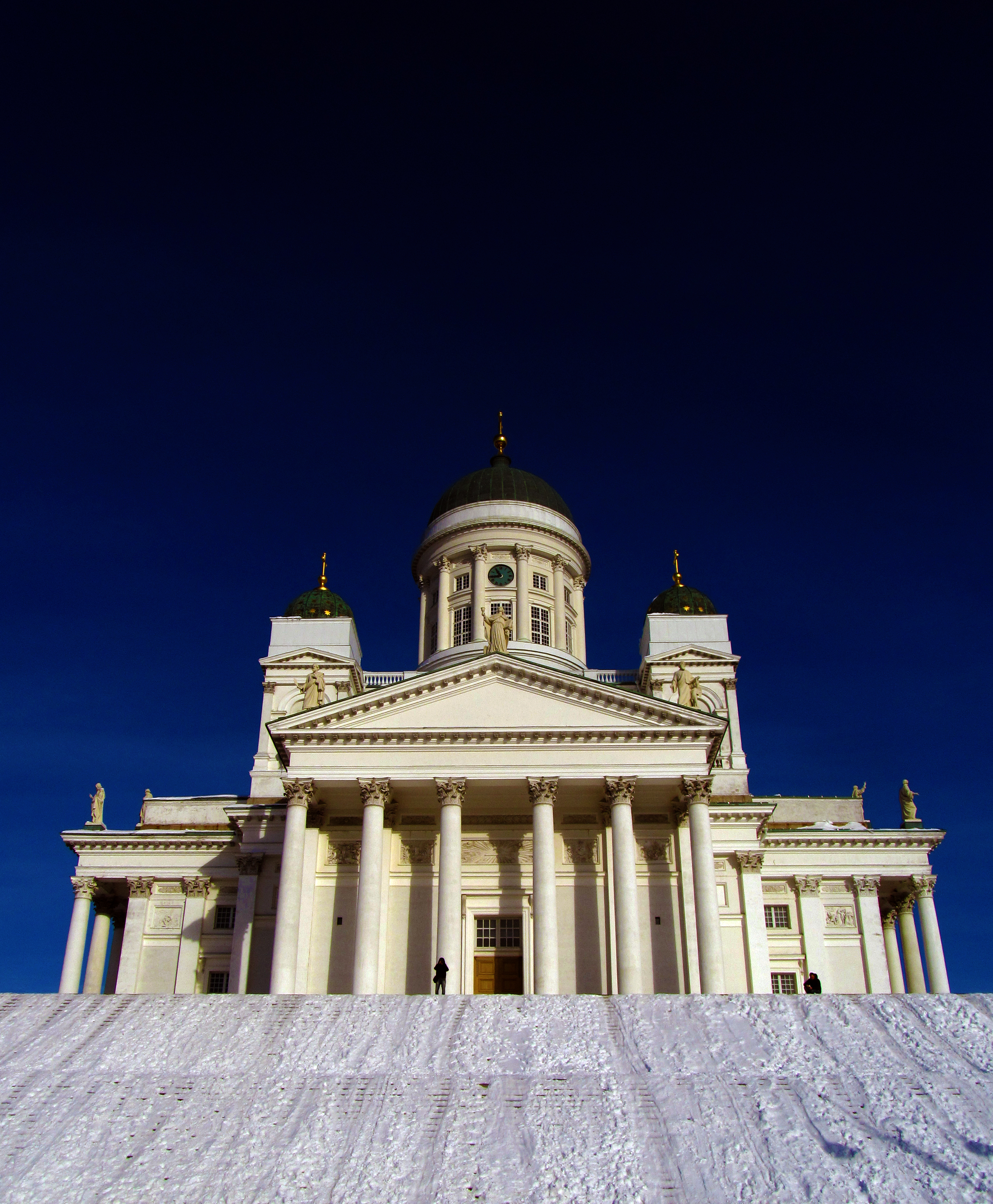 Helsinki Cathedral in winter